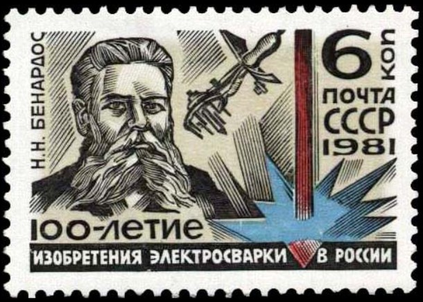 Stamp of the Soviet Union, 1977, CPA 5183. Nikolai Benardos and his invention, an arc welding.